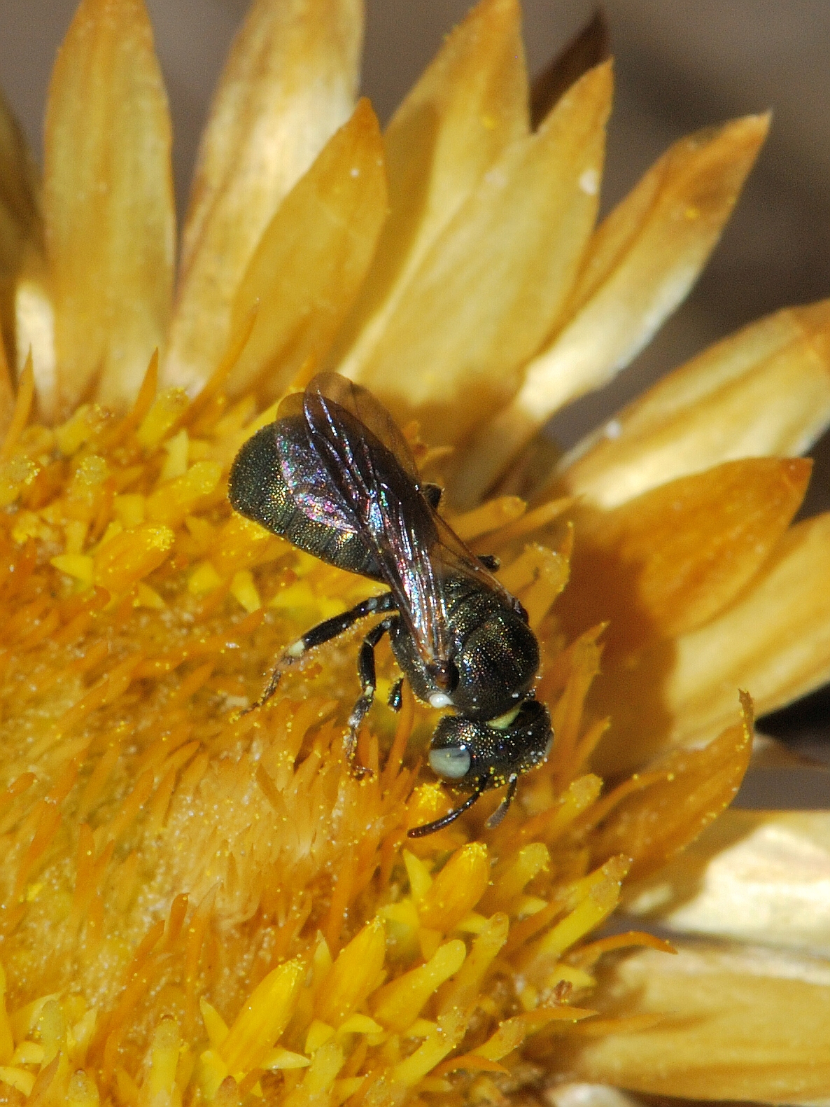 Female Ceratina dentiventris foraging on Carlina curetum, Mount Carmel, Israel, August 14, 2010.